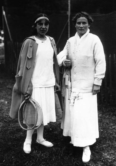 Tennis players Suzanne Lenglen and Elizabeth Ryan at the French Championships in 1914.